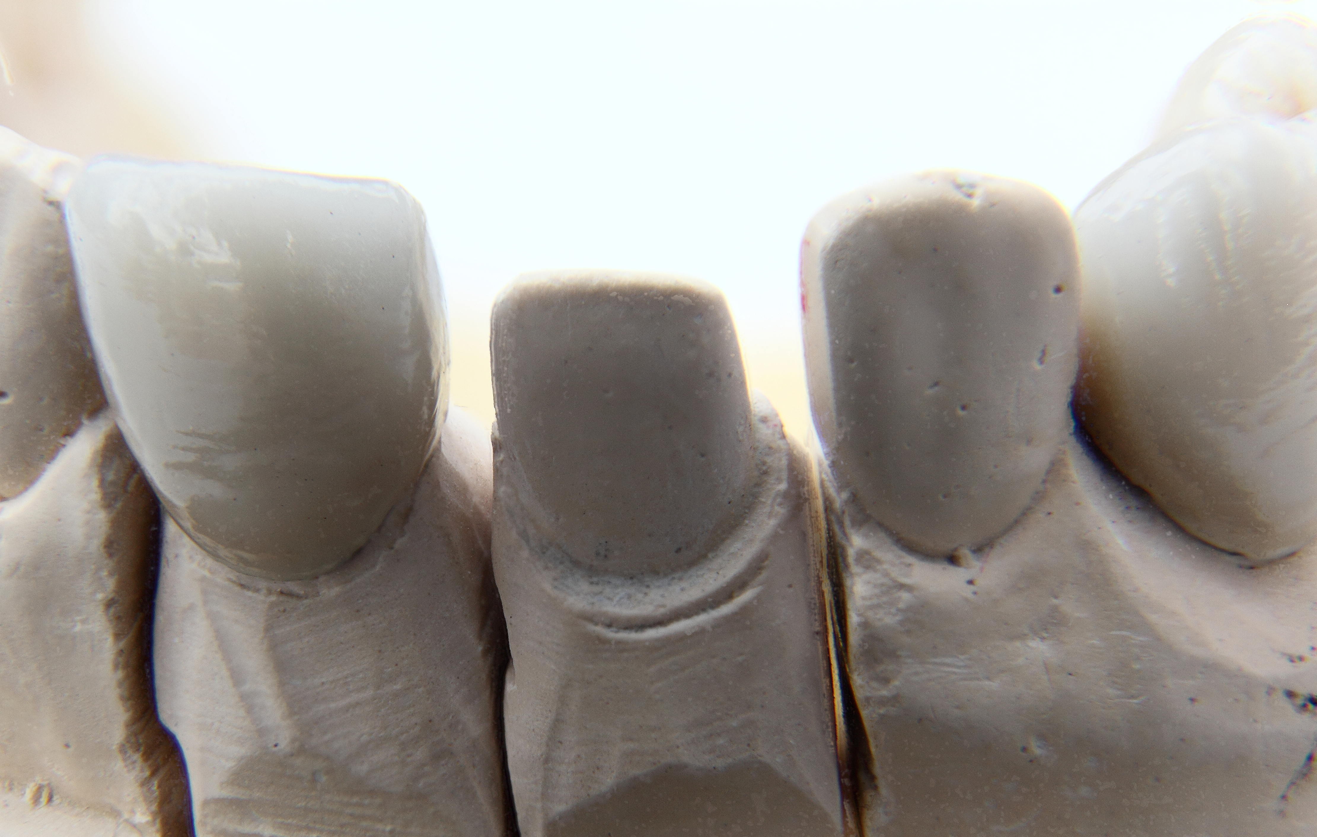 Dental crown; Focus stacking with freeware CombineZP Modified by CombineZP